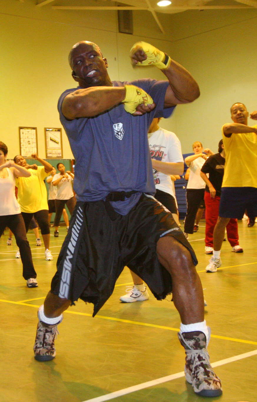 060411-N-6270R-003 Okinawa, Japan - "Tae Bo" creator, Billy Blanks holds a class for service members and their dependents on his famous roll boxing Tae Bo techniques. Armed Forces Entertainment is sponsoring Blanks’ tour, which provides him with the opportunity to exercise and motivate military personnel at Camp Shields, Kadena Air Base, Camp Foster and Camp Hansen. More than 1,000 Sailors, Marines, airmen, soldiers and dependents exercised with Blanks during his tour. Blanks has also worked with U.S. military members stationed in Iraq, Bosnia, Kosovo, Sarajevo, Greece, Africa, Germany and Italy.